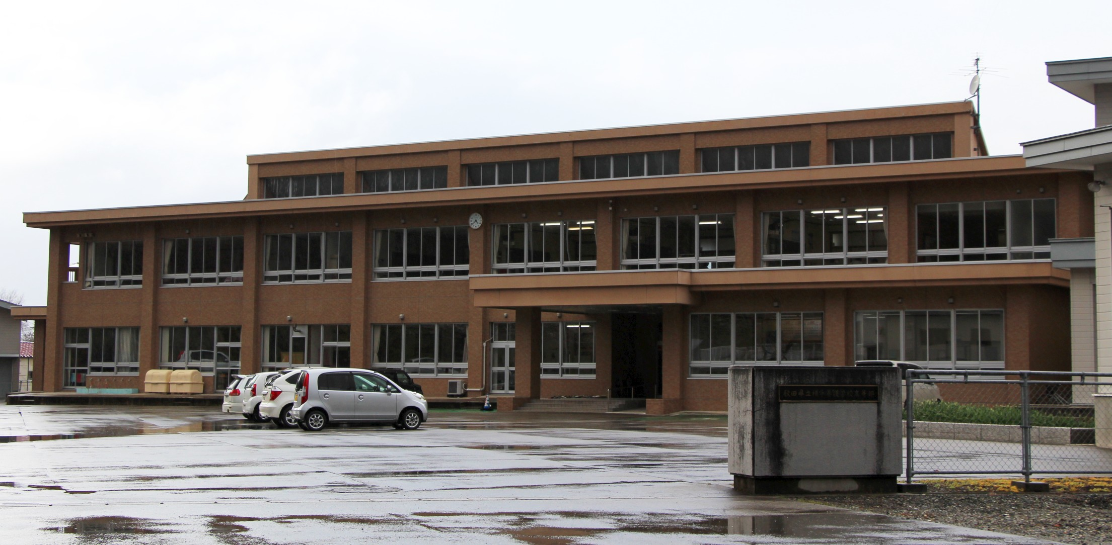 Akita prefectural Yokote school for special needs education, senior high school course. Taken on May 2, 2013.